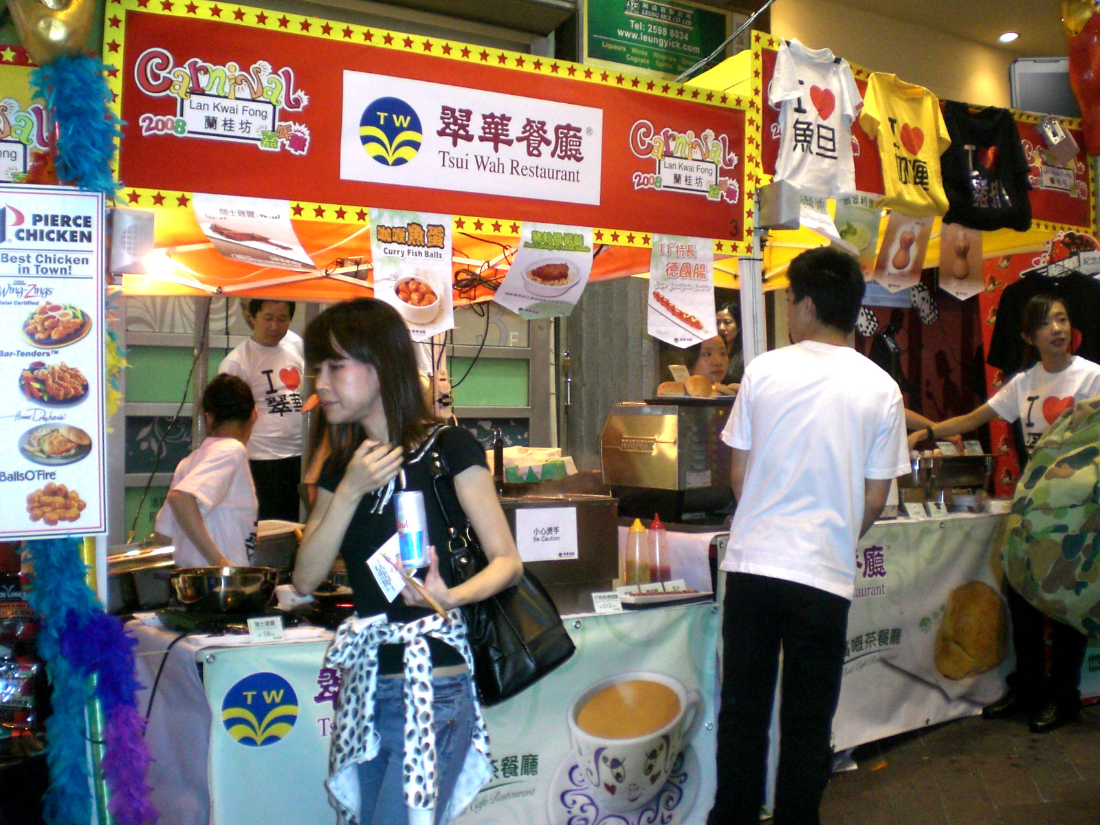 中環zh:蘭桂坊嘉年華 2008年